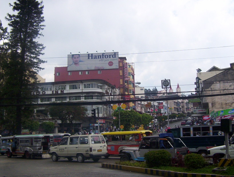 Taken by user reyrefran. A shot of the intersection of Session Road and Magsaysay Avenue, looking east, in Baguio City At left is the People's Park (Malcolm Square). Note also the spires of the Baguio Cathedral at foreground.